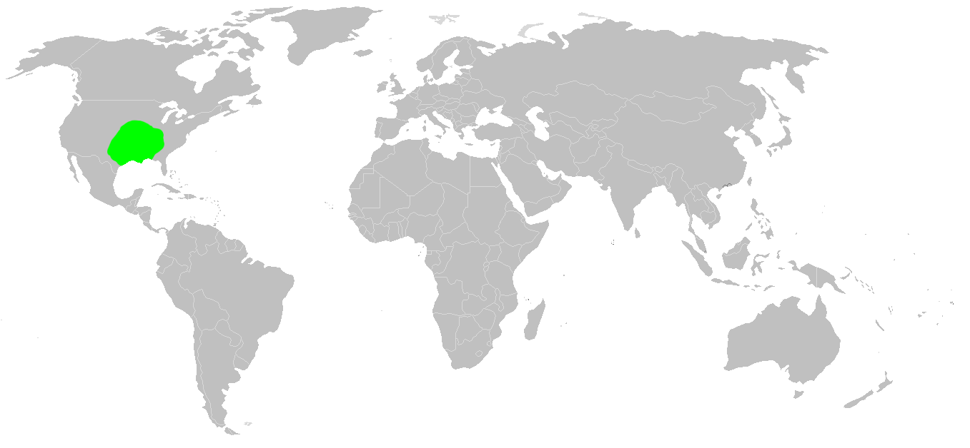 Known world distribution of Loxosceles reclusa (Sicariidae), after